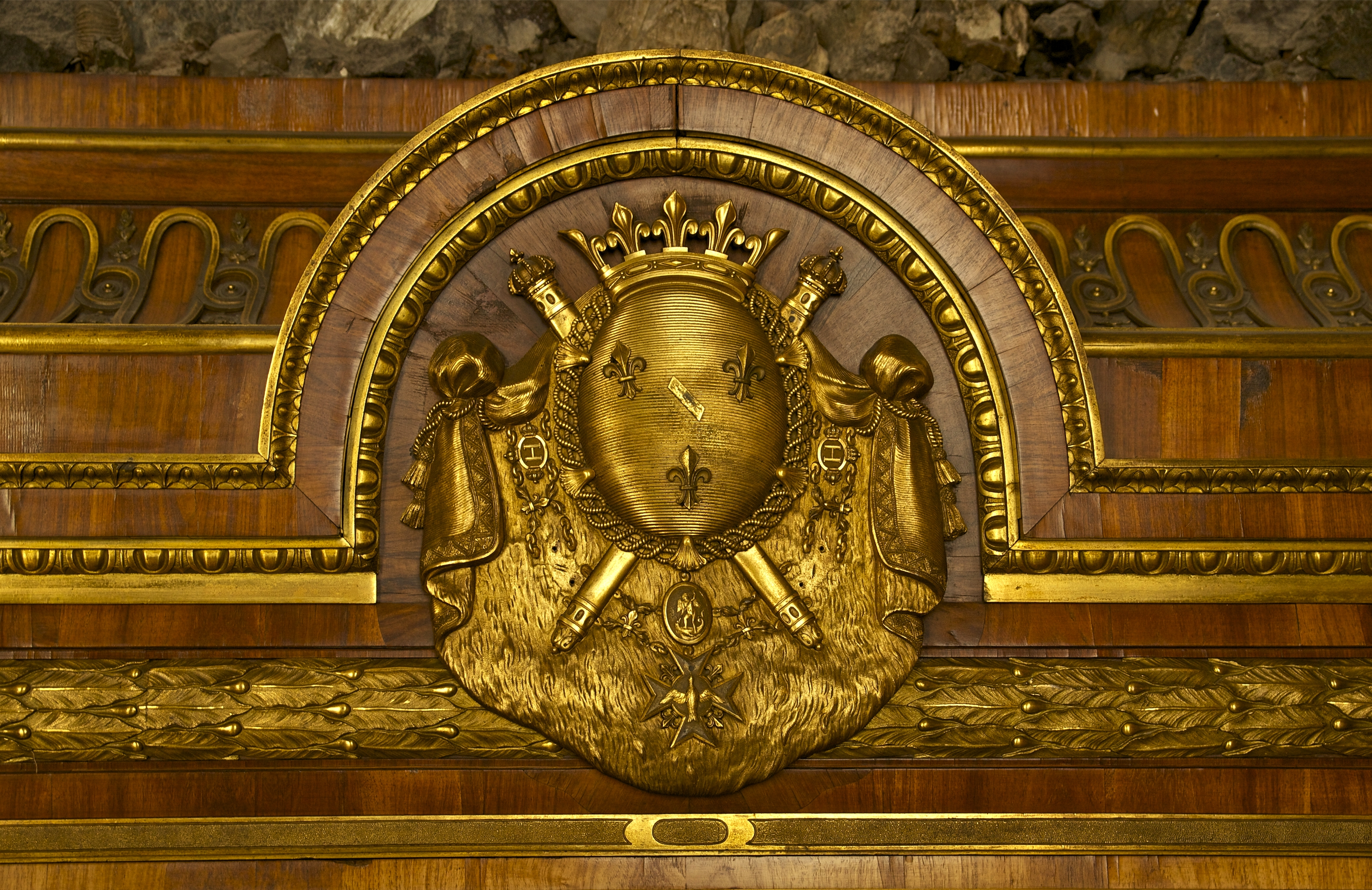 Detail of a bronze ornament of a "Cabinet de Mineralogie" (furniture for collecting rare stones, by Georg Haupt), offered by king Gustav III of Sweden to Louis Joseph, Prince of Condé, in 1774. One can see the "Grandes Armes" of the Prince of Condé. Condé Museum Native nameMusée CondéLocationChantilly , FranceCoordinates49° 11′ 38.2″ N, 2° 29′ 07″ E Established17 April 1898 Web page control : Q1236032 VIAF: 139676854 ISNI: 0000 0001 2314 8954 LCCN: n50036805 GND: 1033853-6 SELIBR: 278694 WorldCat institution QS:P195,Q1236032